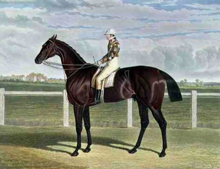 Painting of the British racehorse Rockingham c. 1833 by John Frederick Herring Sr (1795-1865). Artist dead for 147 years.